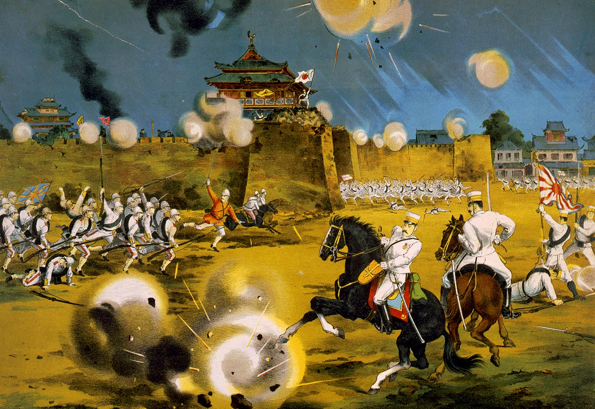 LC-USZC4-2734: Boxer Rebellion, 1900. Allied armies launch a general offensive on Tientsin Castle, China. Lithograph by Ishimatsu Nakashima. Courtesy of the Library of Congress. (5/22/2015).